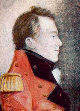 One of two portraits of IsaacBrock included in the 1908 book "The Story of Isaac Brock" by Walter R. Nursey.